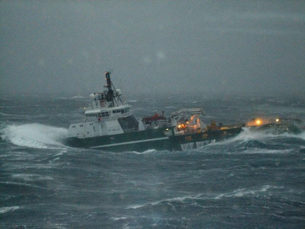 Anchor handling vessel in the North sea